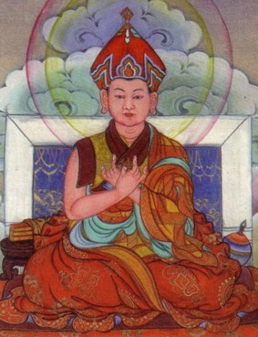 The First Dodrubchen Rinpoche, Jigme Trinle Ozer (Wy.'jigs med 'phrin las 'od zer), b.1745 - d.1821, Nyingma incarnation lama